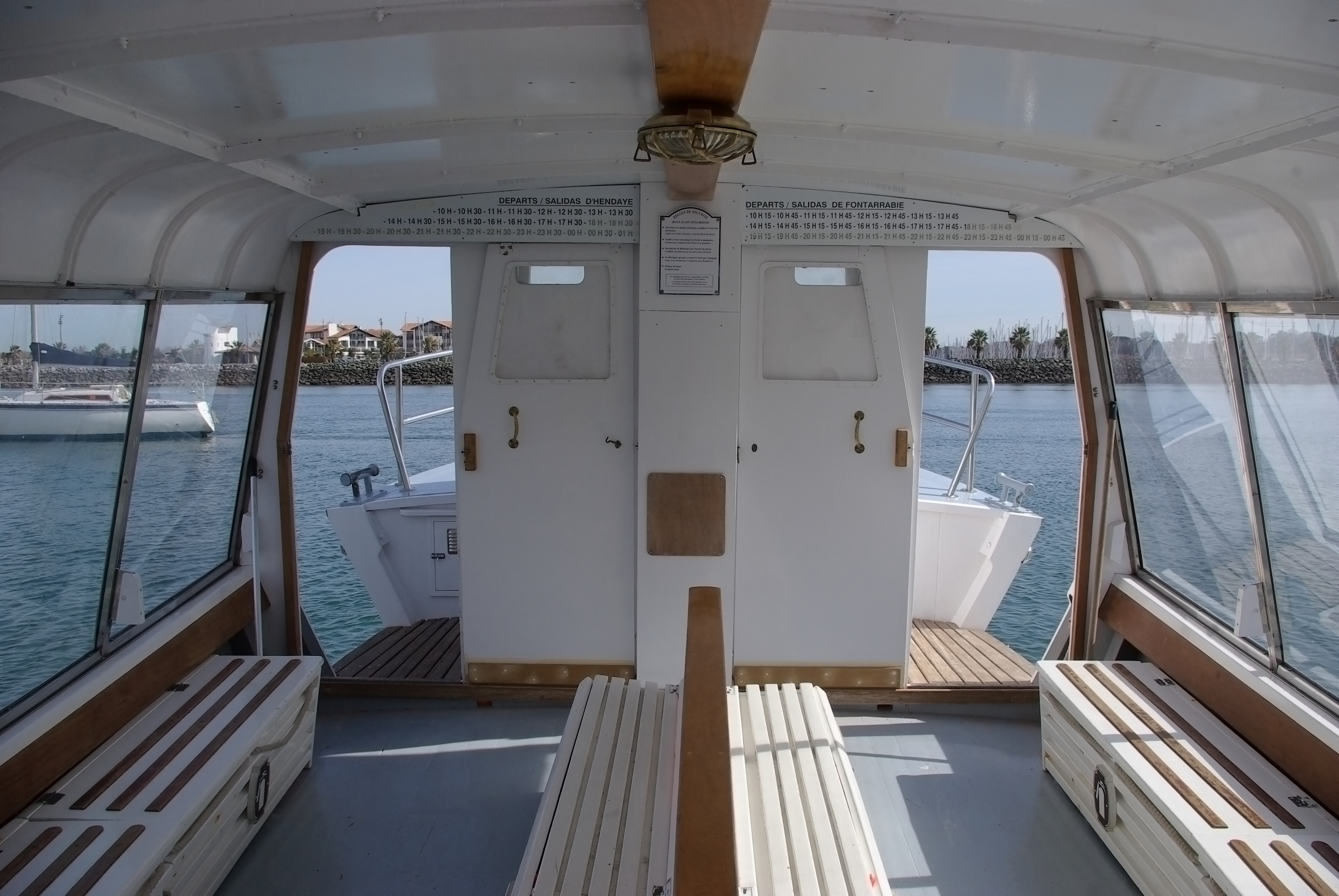 Inside view of the water shuttle between Hendaye (France) and Fontarrabie (Spain). Hendaye, Pyrénées -Atlantiques, France.